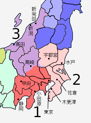 From the Six Regions Chindai Table on April 7, 1875..